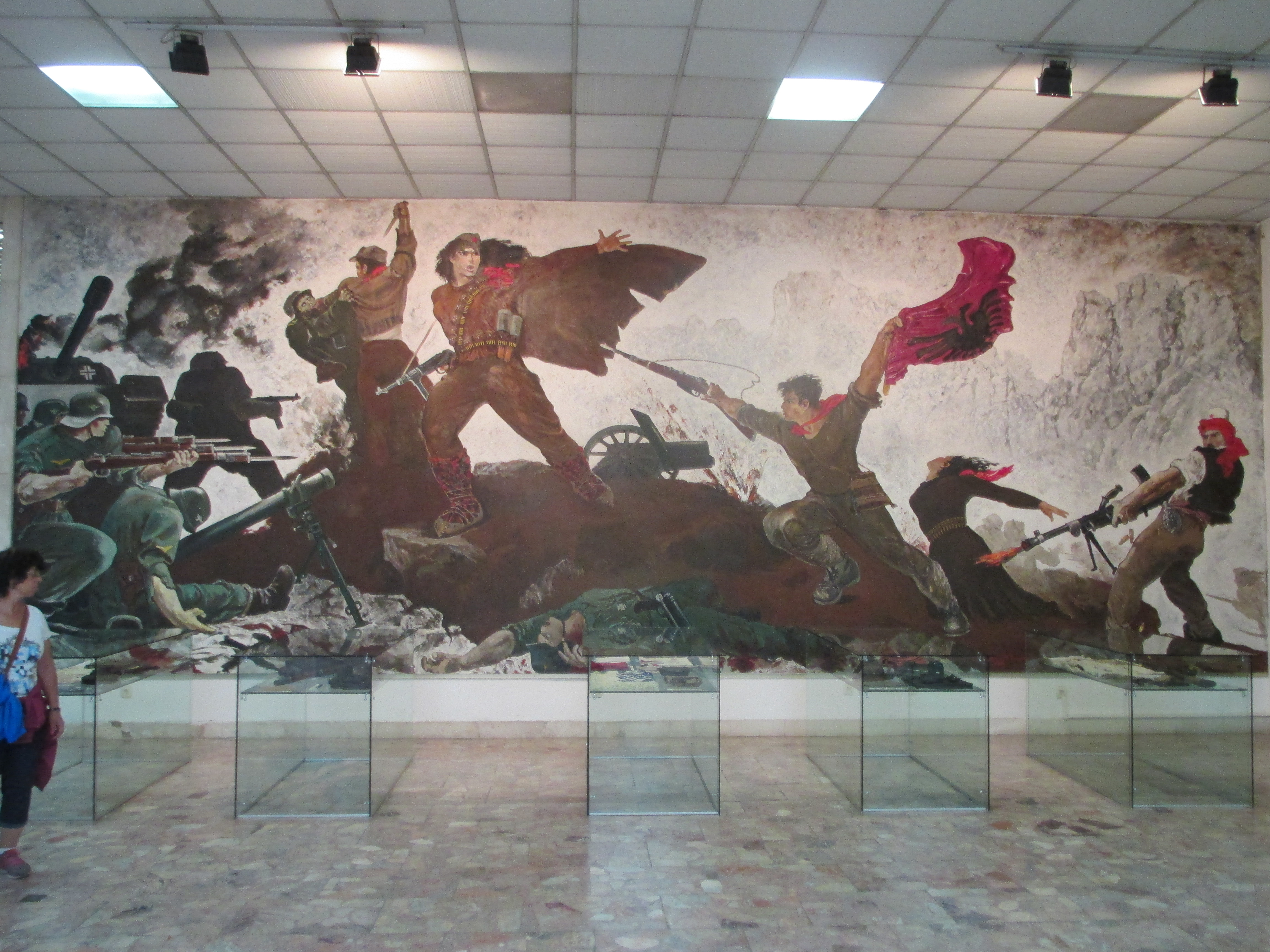 National Historical Museum (Albania)